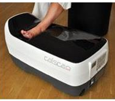 DXL Calscan Bone nineral measurement system